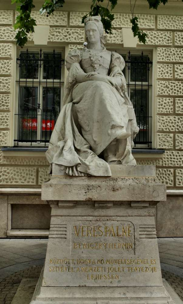 Statue of Pálné Veres, Budapest District V, northern end of Veres Pálné Street